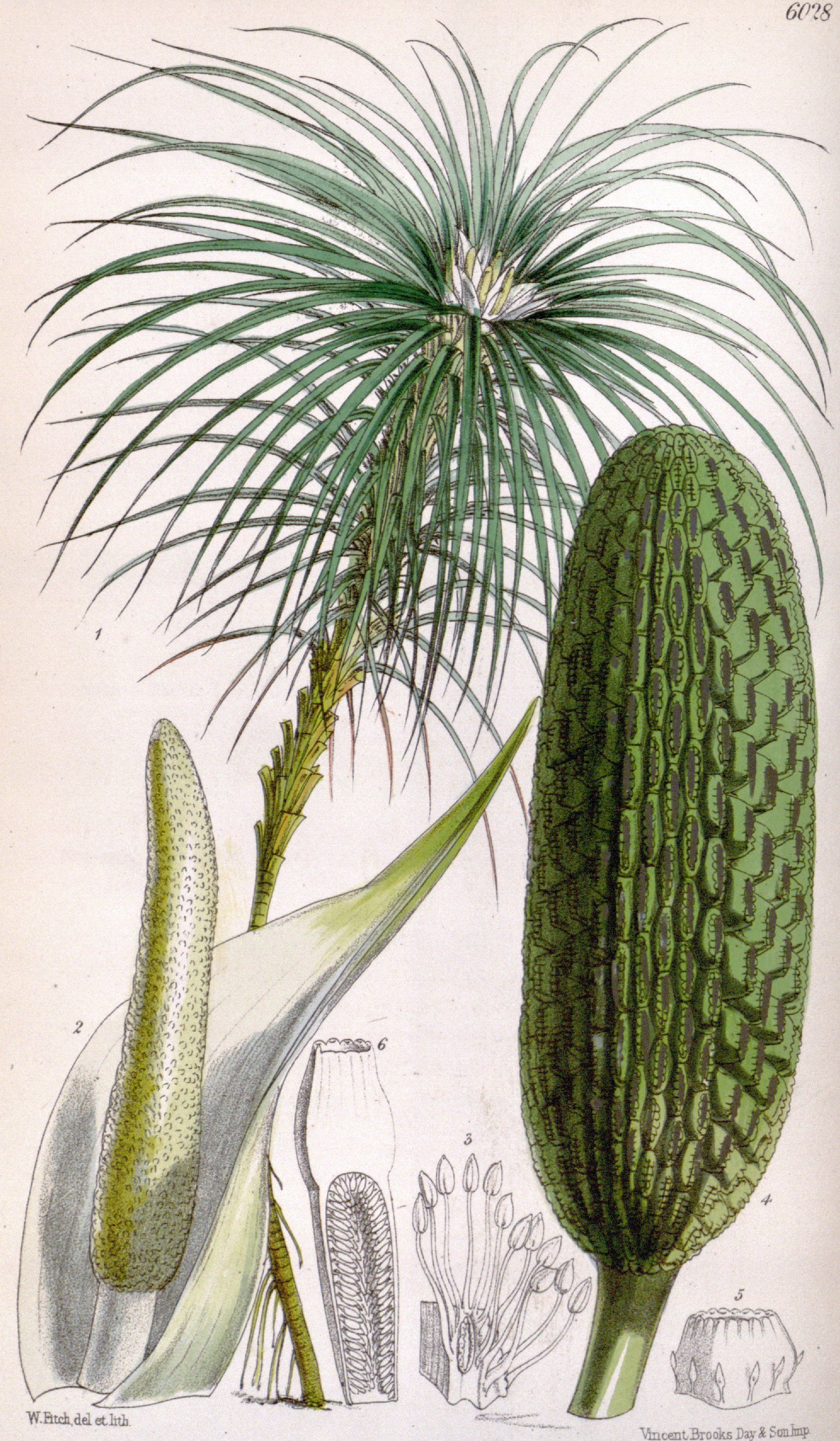 Freycinetia banksii